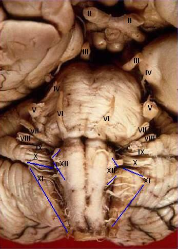 Human brainstem - anterior view - cerebral nerves II. N. opticus - The Optic nerves (II) are large & join at the midline to form the optic chiasm, then continue laterally as the optic tracts. The optic nerve is not a true nerve but rather a CNS tract. III. N. oculomotorius - The Oculomotor nerves (III) emerge from a depression in the midbrain, the interpeduncular fossa, just caudal to the optic chiasm. IV. N. trochlearis - The Trochlear nerves (IV) are small & are seen on the lateral surface of the midbrain. They are the only nerves which exit from the posterior side of the brain. V. N. trigeminus - The Trigeminal nerves (V) are large and emanate from the lateral surface of the pons. VI. N. abducens - The Abducens nerves (VI) exit near the midline from the inferior pontine sulcus which separates the pons from the medulla. VII. N. facialis - Moving laterally in the inferior pontine sulcus, the Facial nerves (VII) can be seen. VIII. N. vestibulocochlearis - Slightly lateral to the facial nerve is the Vestibulocochlear nerve (VIII). IX. N. glossopharyngeus - The postolivary sulcus is a groove running rostrocaudally on the lateral surface of the medulla. From this sulcus pass the small Glossopharyngeal nerves (IX) rostrally and... X. N. vagus - ...the much larger Vagus nerves (X) caudally. XI. N. accessorius - The Spinal Accessory nerves (XI) exit the cervical cord then pass rostrally through the foramen magnum to exit the cranial vault with the lossopharyngeal and vagus nerves. XII. N. hypoglossus - The Hypoglossal nerves (XII) exit the medulla via the preolivary sulcus. (font: arial black, size: 10)